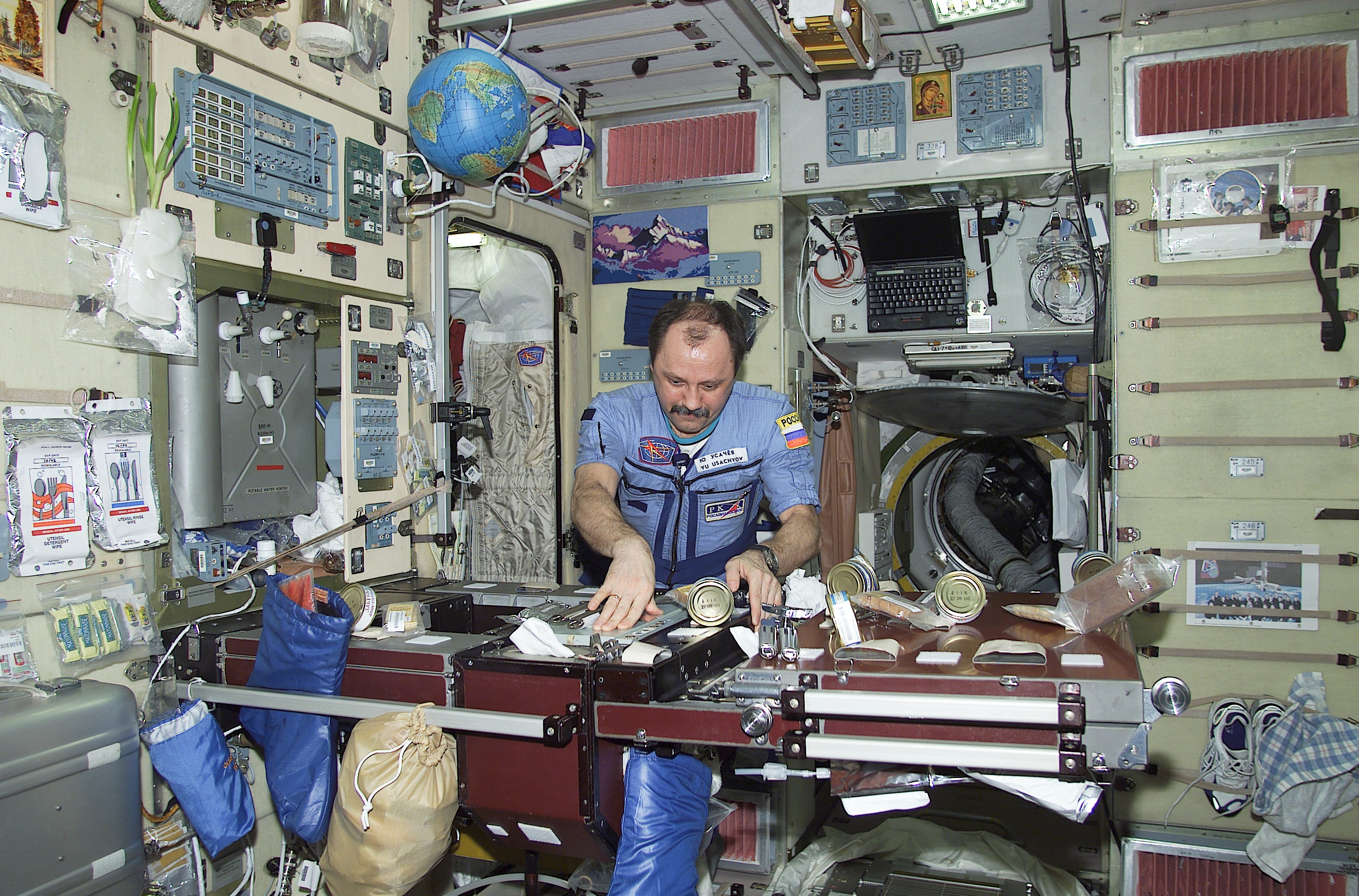 Cosmonaut Yury V. Usachev, Expedition Two commander, organizes different kinds of food in the Zvezda service module aboard the International Space Station (ISS).